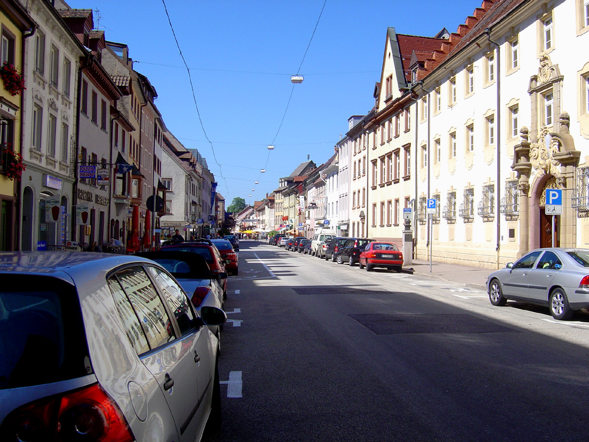 The inner city of Villingen-Schwenningen, district of Villingen (Baden-Wuerttemberg, southern Germany)